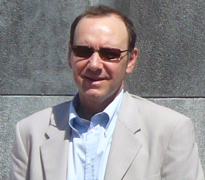 Portrait of actor Kevin Spacey (in 2006)(Part of the Picture Image:SupermanRedBull.jpg)